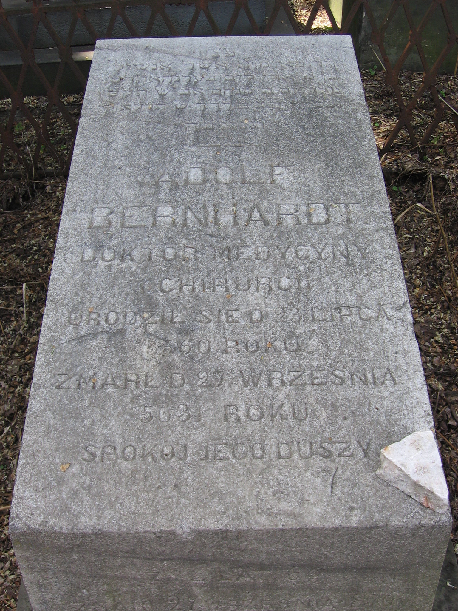 The grave of Adolf Bernhardt at Powązki Jewish Cemetery in Warsaw, Poland